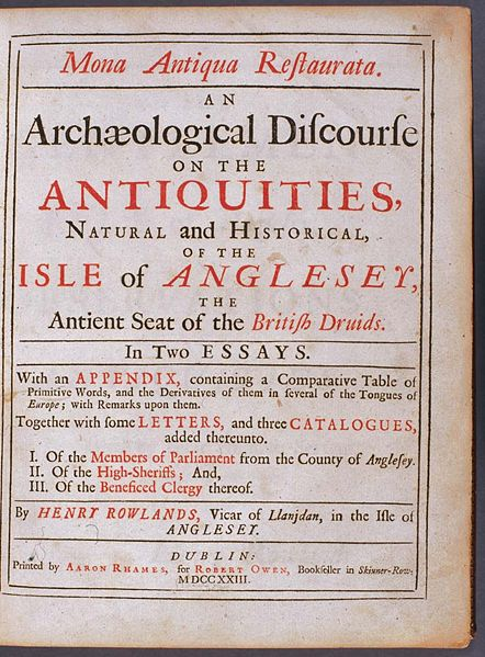 Title page of Mona Antigua Restaurata by Henry Rowlands, 1st edition 1723